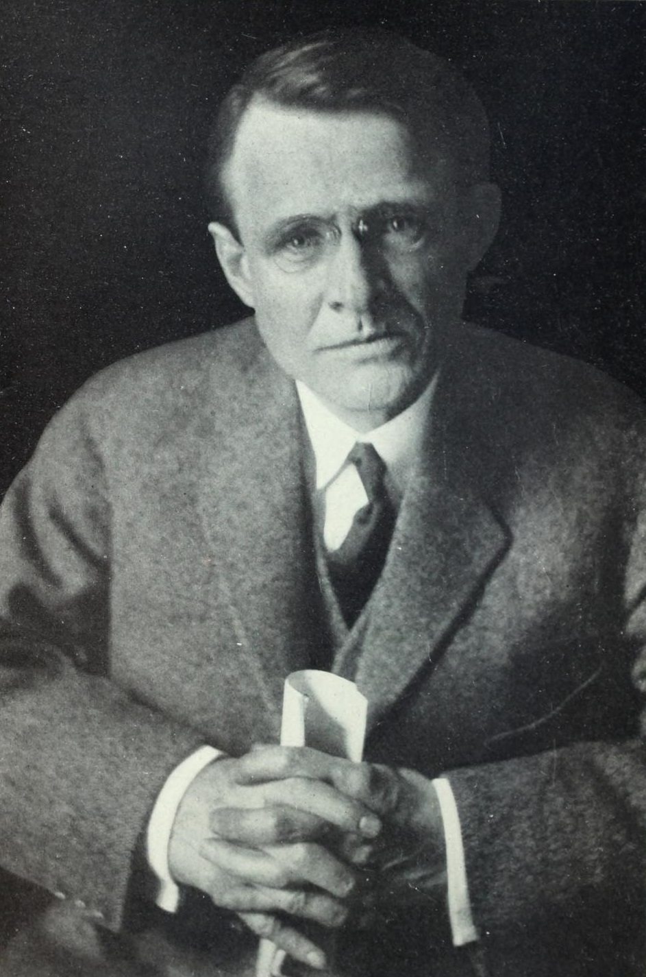 Portrait of Frederic C. Howe